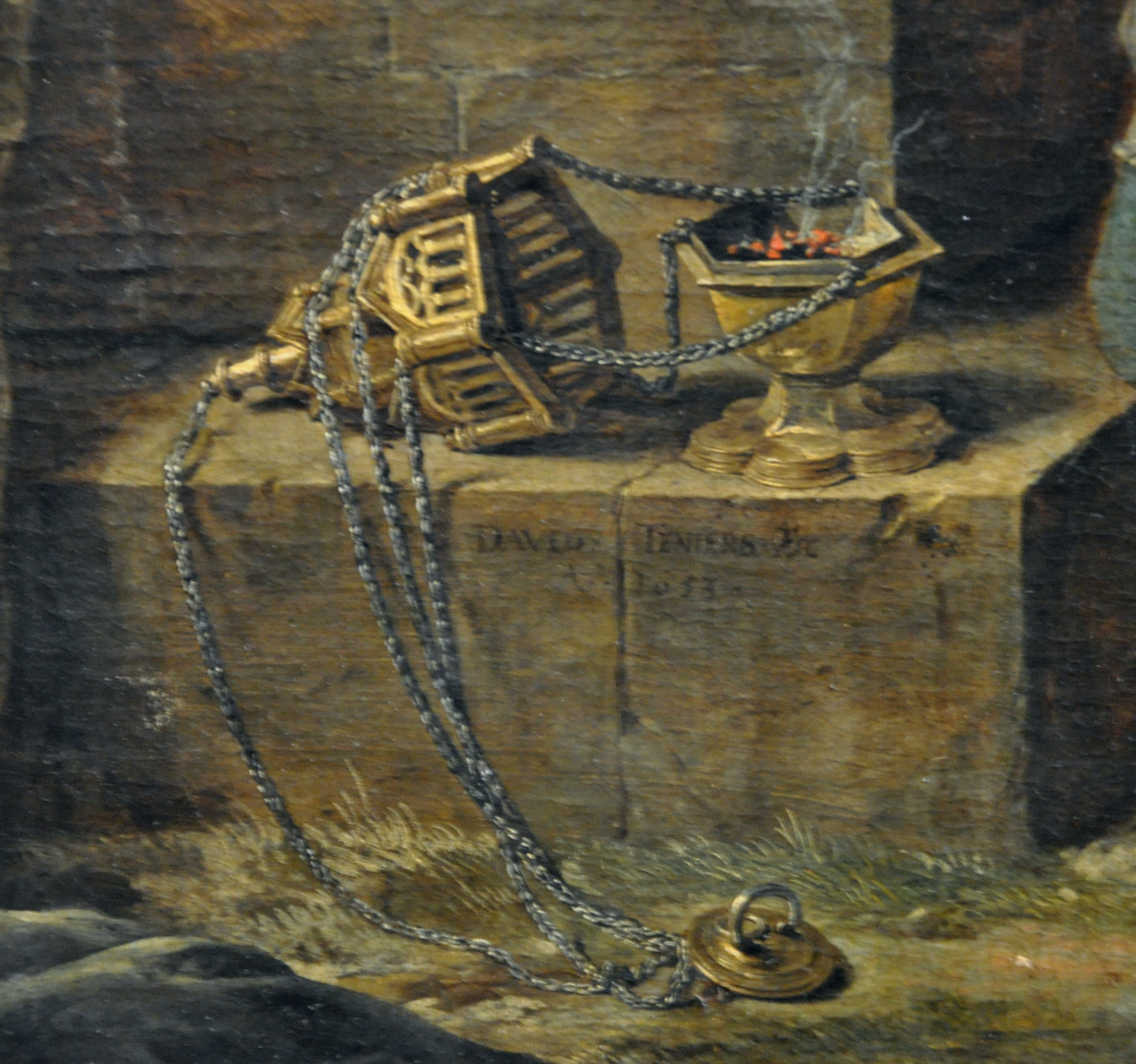 Incense, Detail from: The Sacrifice of Abraham